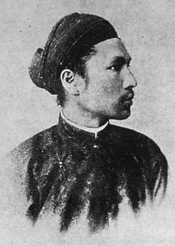 Emperor Ham Nghi of Vietnam.